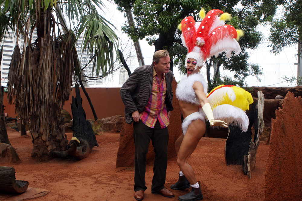 Madame Tussauds Sydney Madame unveils Guy Pearce wax figure Madame Tussauds Sydney this morning unveiled a wax figure of English-born Australian actor, Guy Pearce, for the first time. Pearce’s wax figure was flamboyantly dressed as his most well-known character, Felicia Jollygoodfellow. The latest figure to be revealed by Madame Tussauds Sydney was unveiled in The Outback at WILD LIFE Sydney to imitate scenes from Australian comedy drama, The Adventures of Priscilla, Queen of the Desert. Madame Tussauds is set to officially open its doors in Sydney’s Darling Harbour in May 2012. The Pearce wax figure joins a star-studded line up at Madame Tussauds Sydney including Johnny Depp, Nicole Kidman, Lady Gaga, Dannii Minogue, Ray Meagher, Hugh Jackman and Amanda Keller. Stephan Elliot, Director of The Adventures of Priscilla, Queen of the Desert and Kristy Enright, Madame Tussauds Sydney spokesperson were also on hand to oversee the latest media event, as Madame Tussauds gets everything ready for the public at large. Websites Madame Tussauds Sydney Hausmann Communications Eva Rinaldi Photography Flickr Eva Rinaldi Photography Splash News